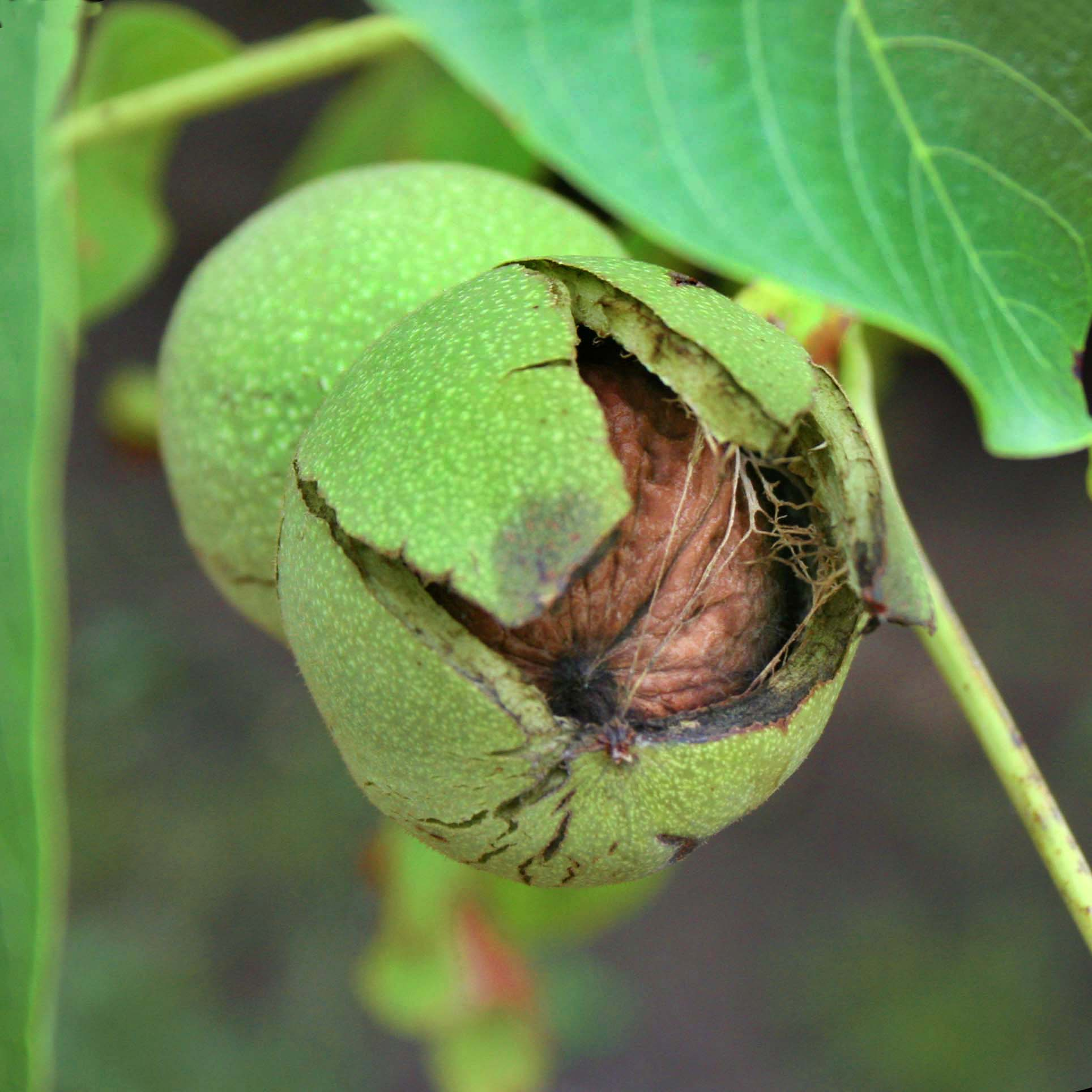 walnut's "Home"